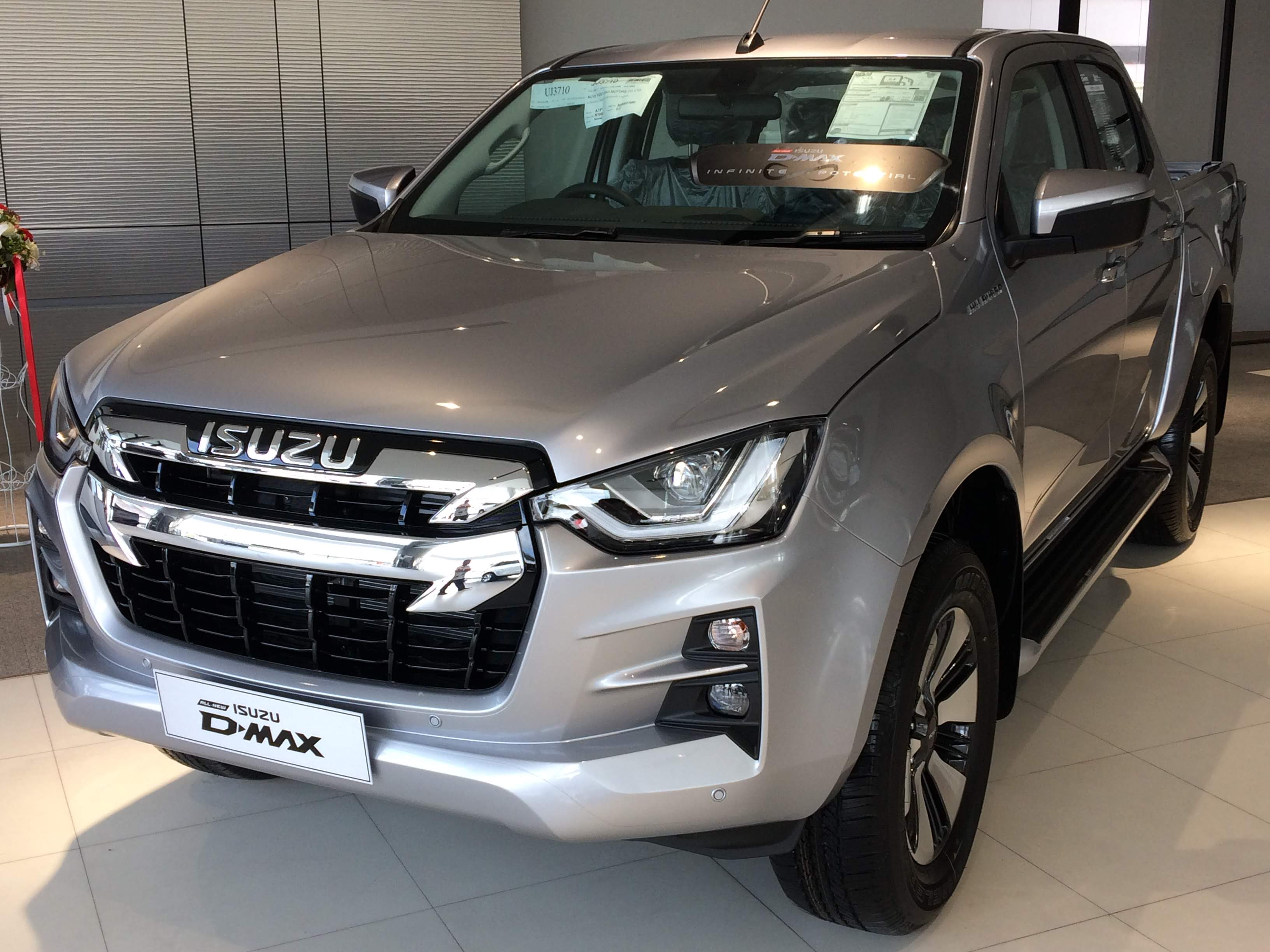 2019 Isuzu D-Max Hi-Lander 4-Door 1.9 Ddi M in Kow Yoo Hah Motors, Khon Kaen, Thailand.